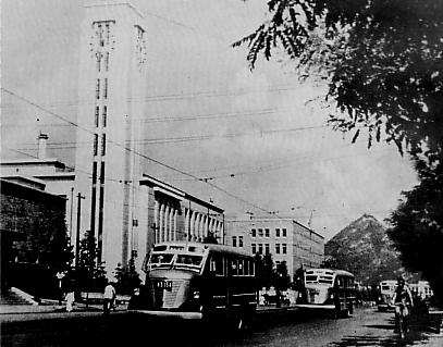 Keijo (Seoul) Public Hall — the present day Seoul Metropolitan Council building. Built during the Japanese Colonial Korea period (1910-1945).